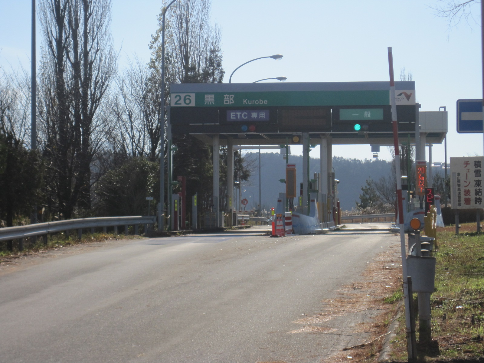 Kurobe Inter Change (Hokuriku Expressway)